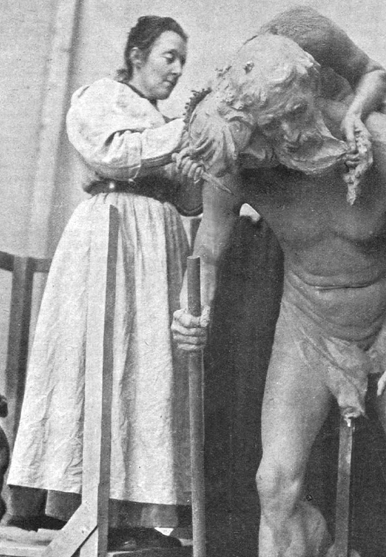 Carolina Benedicks-Bruce with her sculpture L'obsède 1910